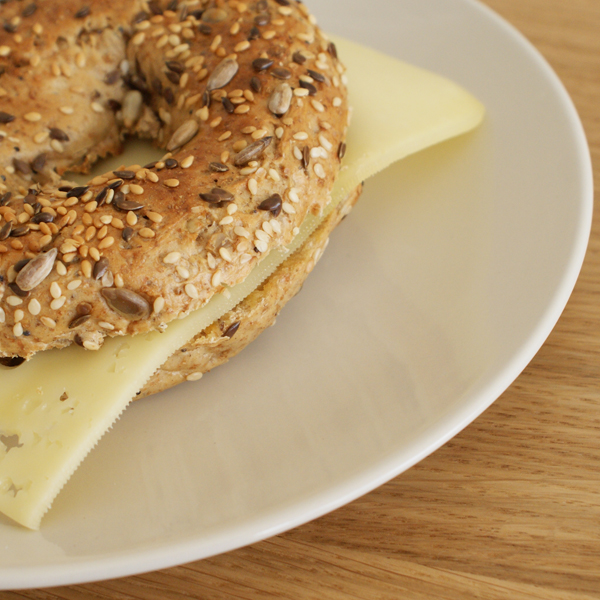 Wholemeal and seeds bagel with a slice of cheese in a white plate.